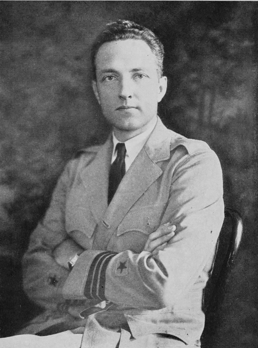 Richard Evelyn Byrd USN Retired